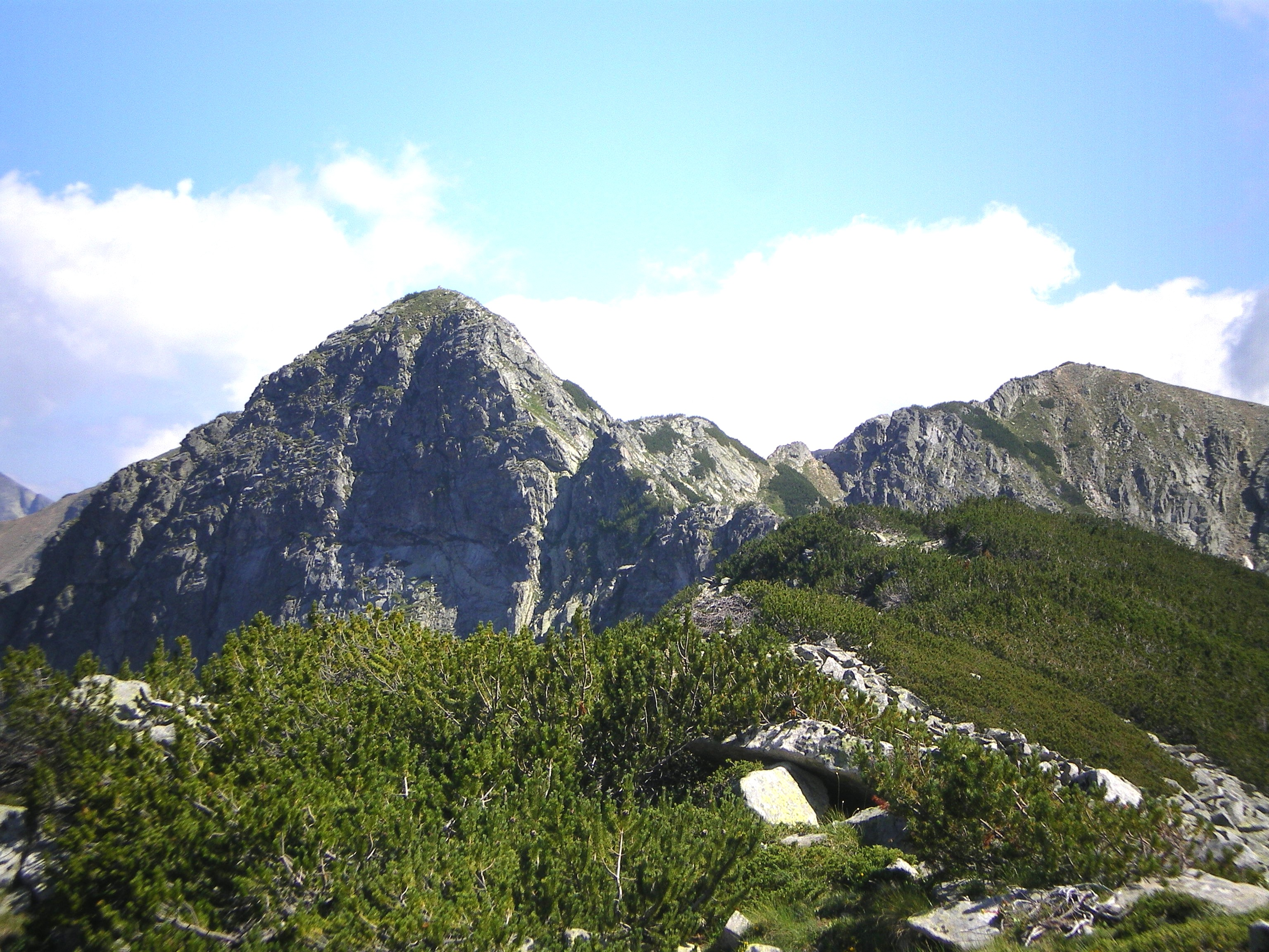 Vasilashki Chukar i Vazela, Pirin, Bulgaria. Shrubs in foreground are Pinus mugo.